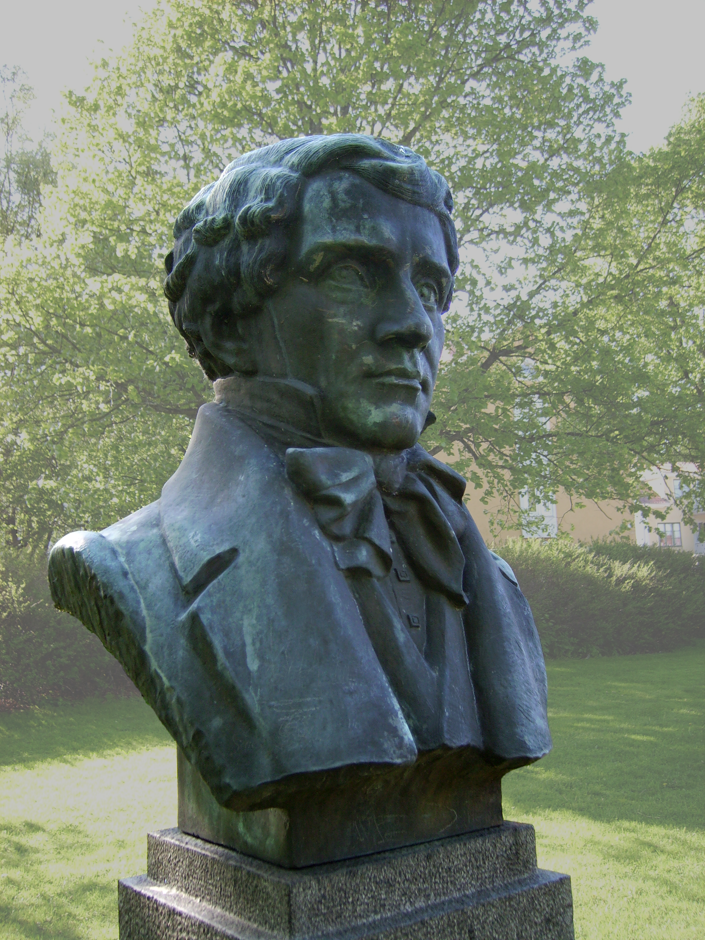 Statue of Adolf Fredrik Lindblad (February 1, 1801 in Skänninge – August 23, 1878 in Linköping) in Lindbladsparken in Skänninge. He was a Swedish composer, mainly remembered for his songs. Lindblad composed one opera, Frondörerna (The rebels), two symphonies, in C and D major, and chamber music including two string quintets, three violin sonatas and seven string quartets. The main source of his popularity during his lifetime was the more than two hundred songs he composed. The mentor, and would-be lover, of Jenny Lind, "The Swedish Nightengale," Lindblad's affection for Lind was so obvious that his wife, Sophie, offered to divorce him so that he could marry her. He did not.